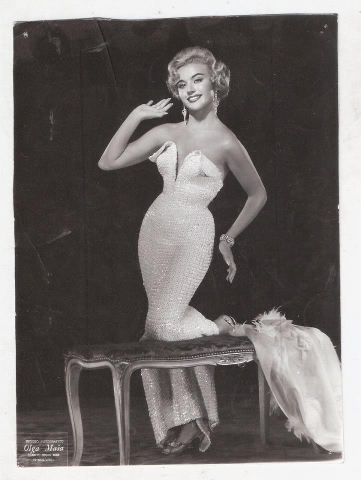 Marta Ecco - actress